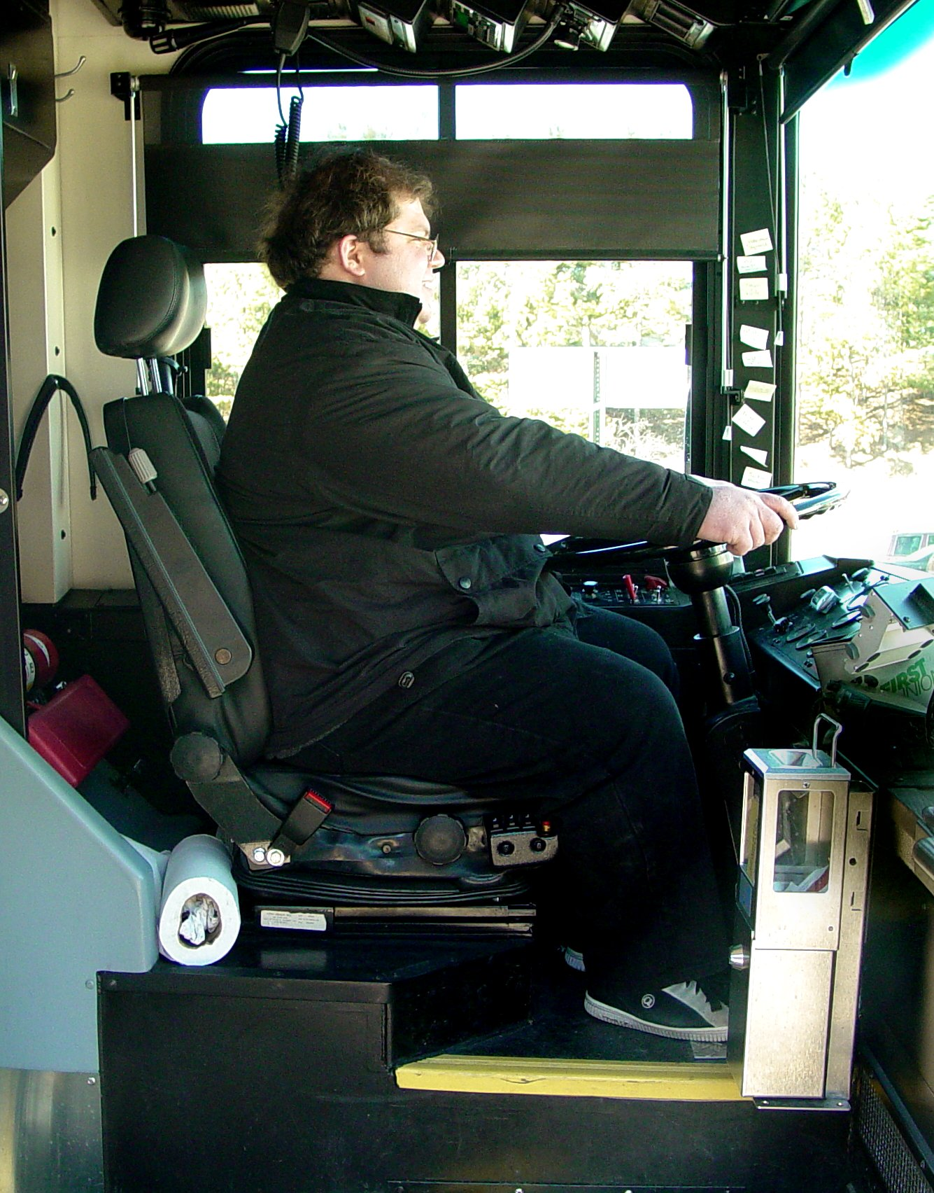 Ben Schumin in the driver's seat of a Harrisonburg Transit bus.